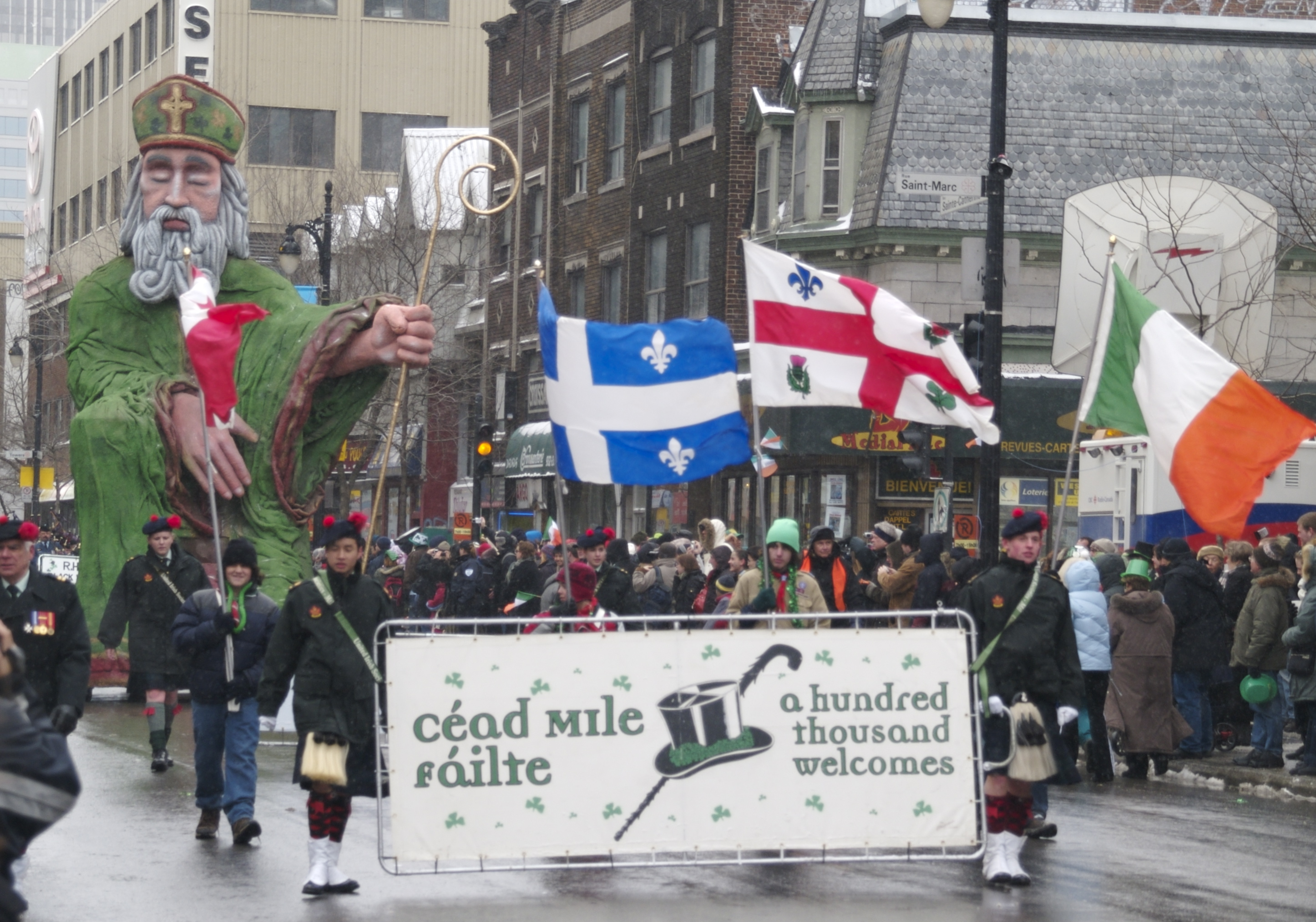 St. Patrick's Day Parade Montreal 2007